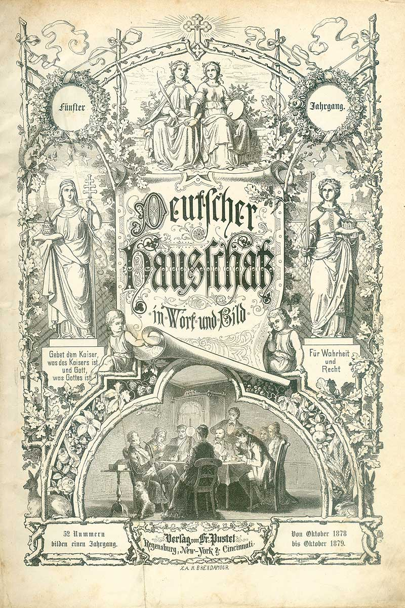 Cover of the october 1878 edition of the German culture and religion magazine "Deutscher Hausschatz" (German Home Treasure).